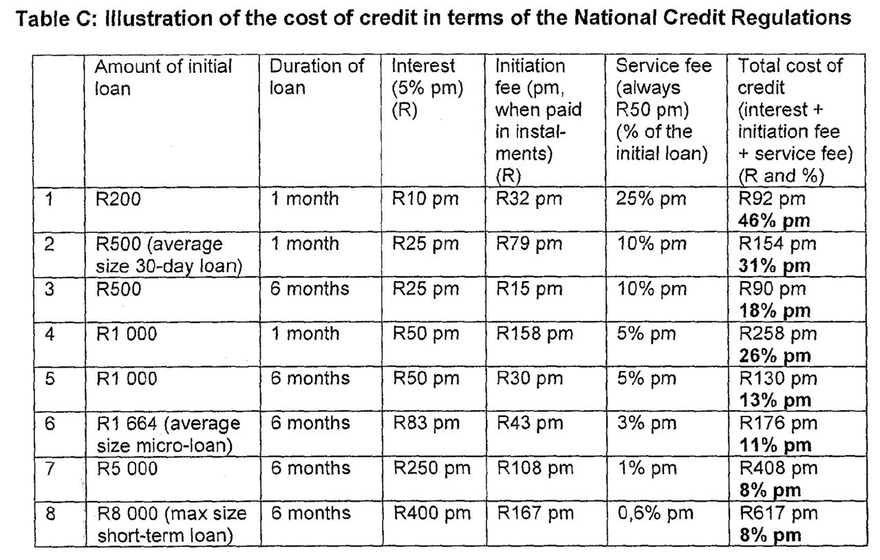 The total cost of credit (for either short-term or unsecured loans) applied to a number of loan amounts and loan periods, in terms of South African law.